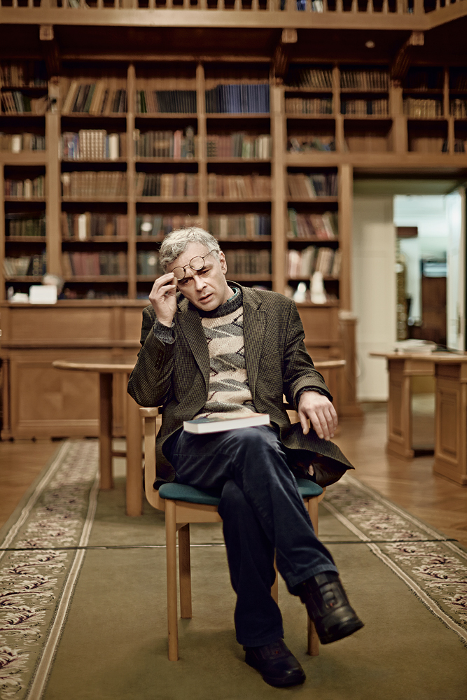 Portrait of Nikita Eiseev